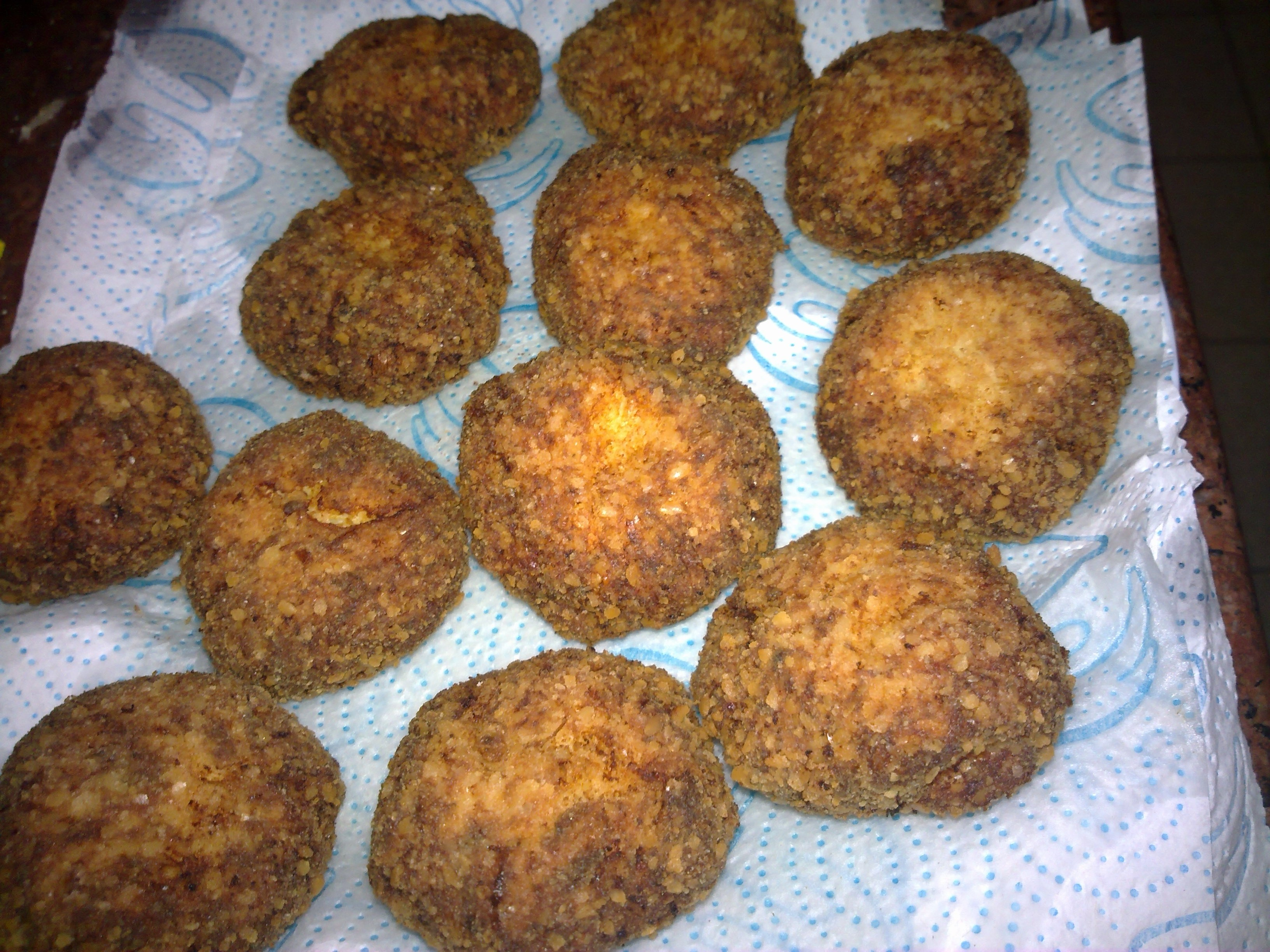 Fritas or Fritikas or Keftikas de Prasa is a traditional Sepharadi food, mainly from the Balkans and Turkey